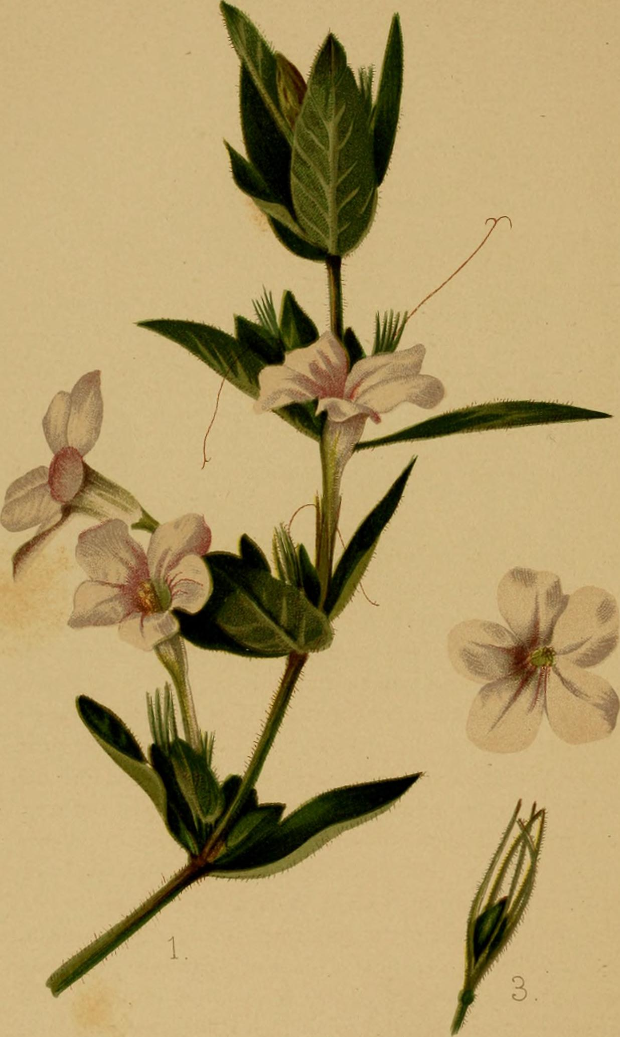 Title: The native flowers and ferns of the United States in their botanical, horticultural and popular aspects Year: 1879 (1870s) Authors: Meehan, Thomas, 1826-1901 Subjects: Wild flowers -- United States Ferns -- United States Publisher: Boston : L. Prang and Co. Text Appearing Before Image: he race is thencontinued by the younger offspring. The Star-Grass is in flower in May, according to some authors,and in June, according to others. But in Germantown, Pa., itblossoms from May to September. It is found in all the stateson the eastern slope of the continent, from Maine to Florida.In Kansas and Arkansas it is quite common ; and it was alsofound by Marcys expedition on the head waters of the TrinityRiver, in Northern Texas. It does not, however, seem to havereached Colorado, nor is it found in Wyoming or Idaho, and itis probably wholly confined to the regions east of tlie RockyMountains. Its northwestern limit is Minnesota, where it isabundant. The favorite places of growth of this species seem to be openwoods, or waste places covered with low shrubs ; but our speci-men is from a cranberry swamp, and it may have been that thisposition favored the production of seed. Explanations of the Tlatk.-i. Complete plant. - 2. Mature capsule with seed.-3. Anther much enlarged. Plat-e Text Appearing After Image: K; pn T/ I , (I . pp.AN RUELLIA CILIOSA. LONG-TUBED RUELLIA, NATURAL ORDER, ACA\TIIACE/K. RuELLiA CILIOSA, Pursh. — Hirsute, with soft whitish hairs (one foot to three feet high);leaves nearly sessile, oval or ovate-oblong (one inch to two inches long); flowers one tothree and almost sessile in the a.xils; tube of the corolla (one inch to one and one halfinches long) fully twice the length of the setaceous calyx-lobes; the throat short. (GraysMiiiiual of till Bo/iiny of t/ie Aorllurn UiiilcJ Stales. See also, under Difitcracantlmsfi/wsiis. Woods Class-Bool; If Bilaiiy, and Chapmans Flora of Ihc Southern UnitedStates.)